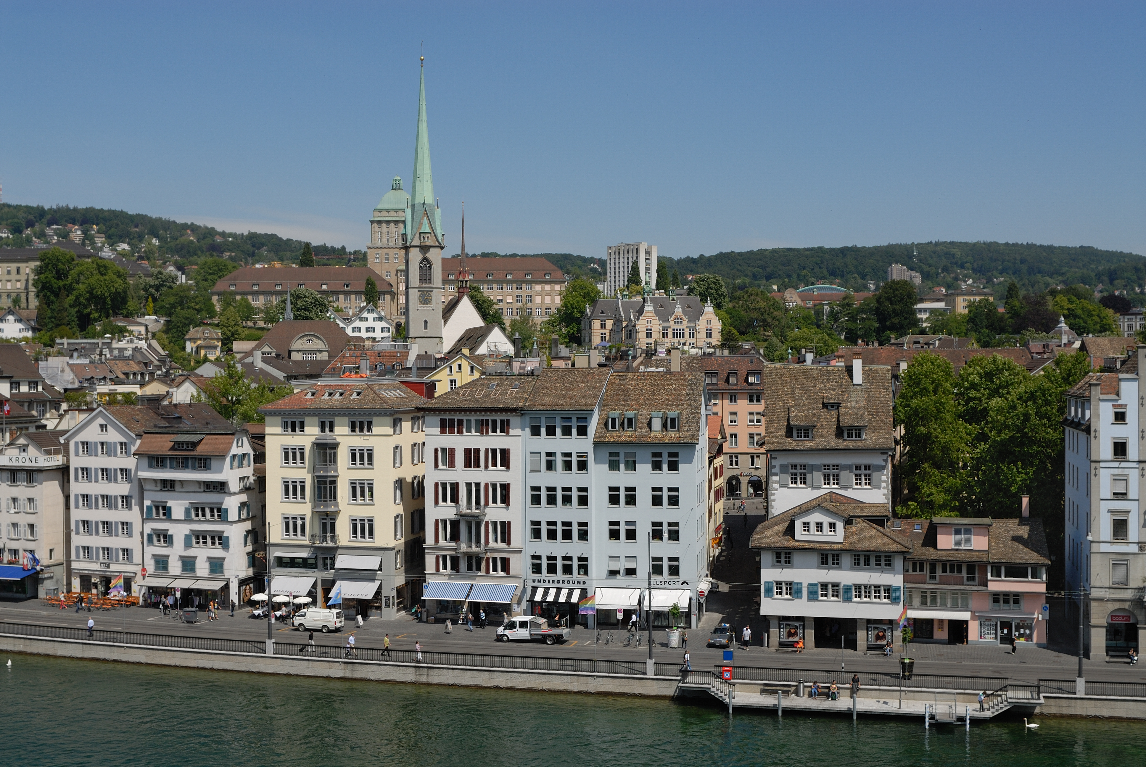 View from Lindenhof of the Zürich area right/east of Limmat with parts of the Niederdorf old town and newer buildings further up the hill.